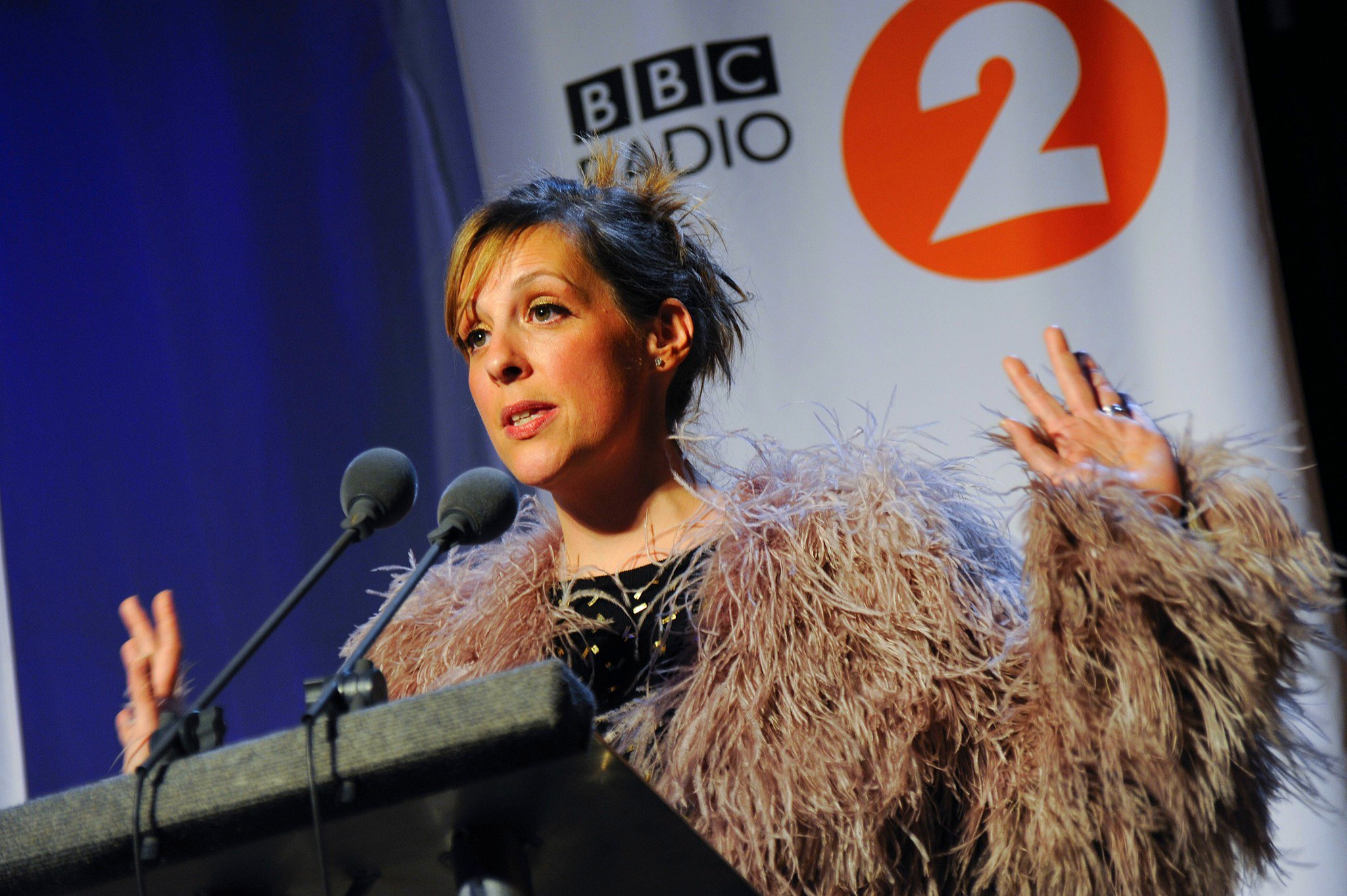 Mel Giedroyc at the BBC Radio 2 Folk Awards 2009